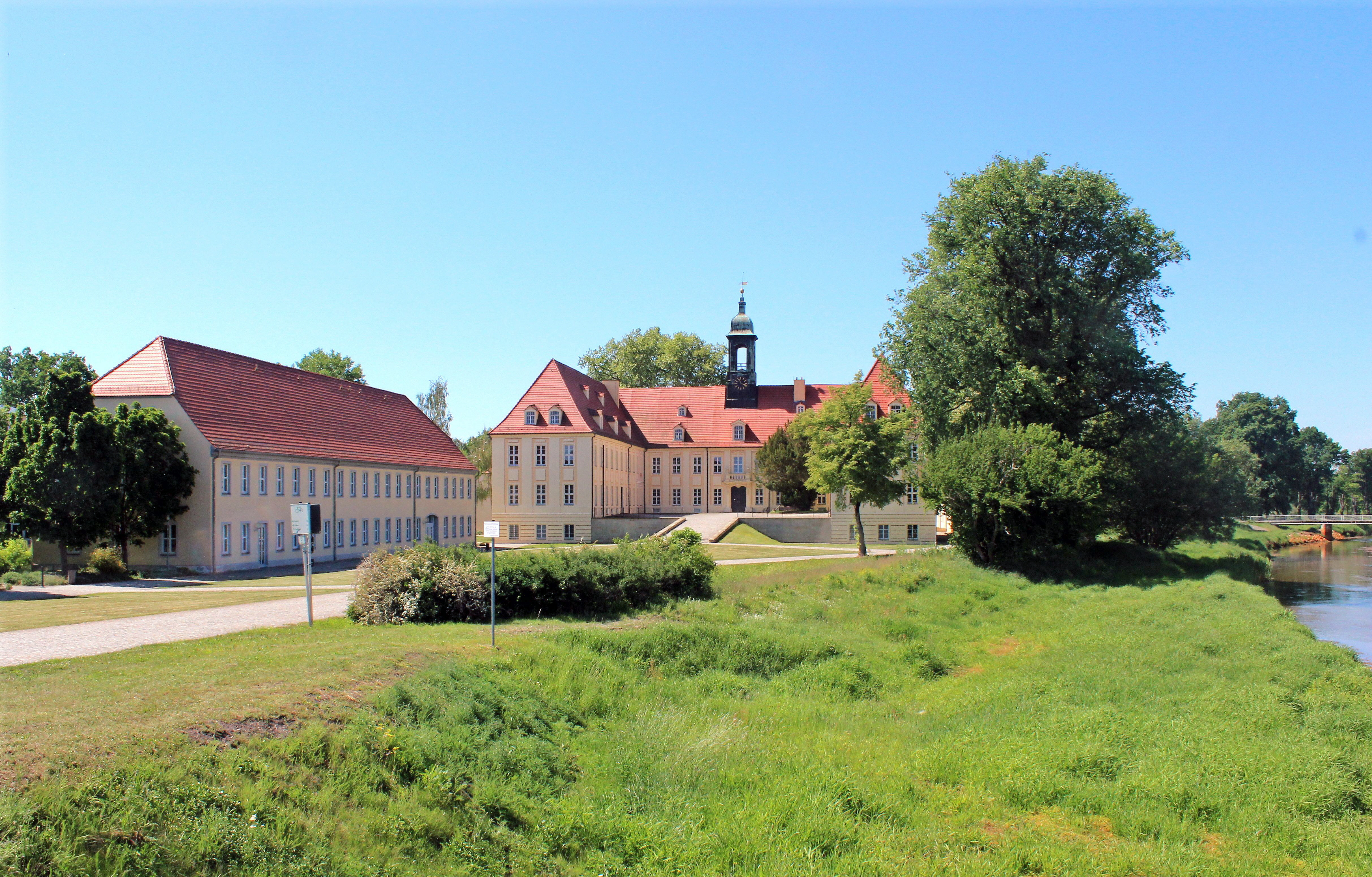 The castle of Elsterwerda.